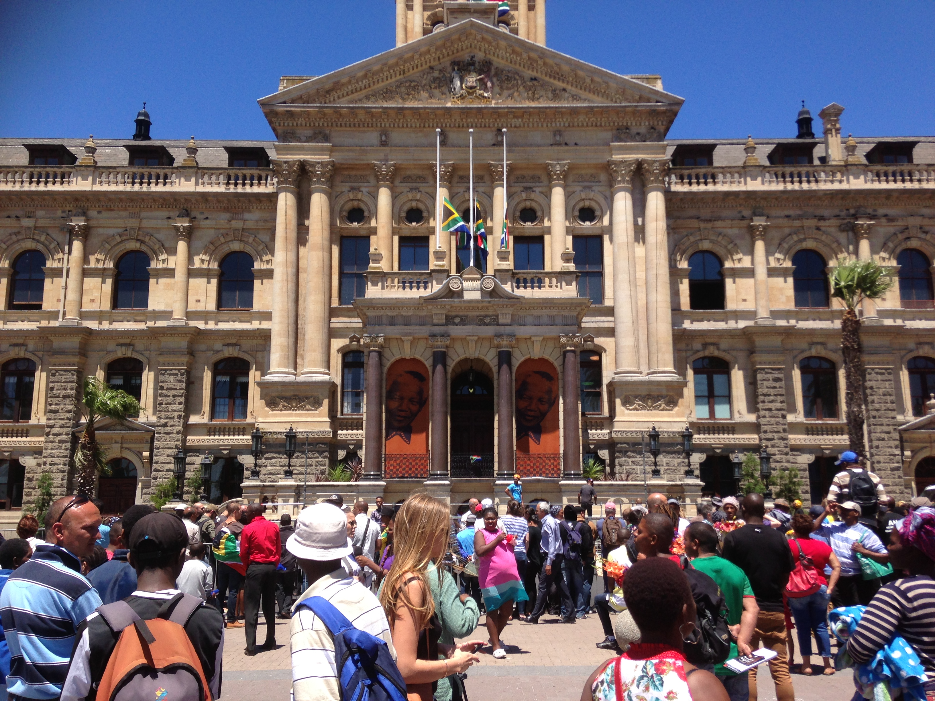 Taken on the 6th December 2013, the day after Nelson Mandela's death. Preparations begin and crowds begin to gather for a speech to be given in remembrance of Mandela at the old Cape Town City Hall.